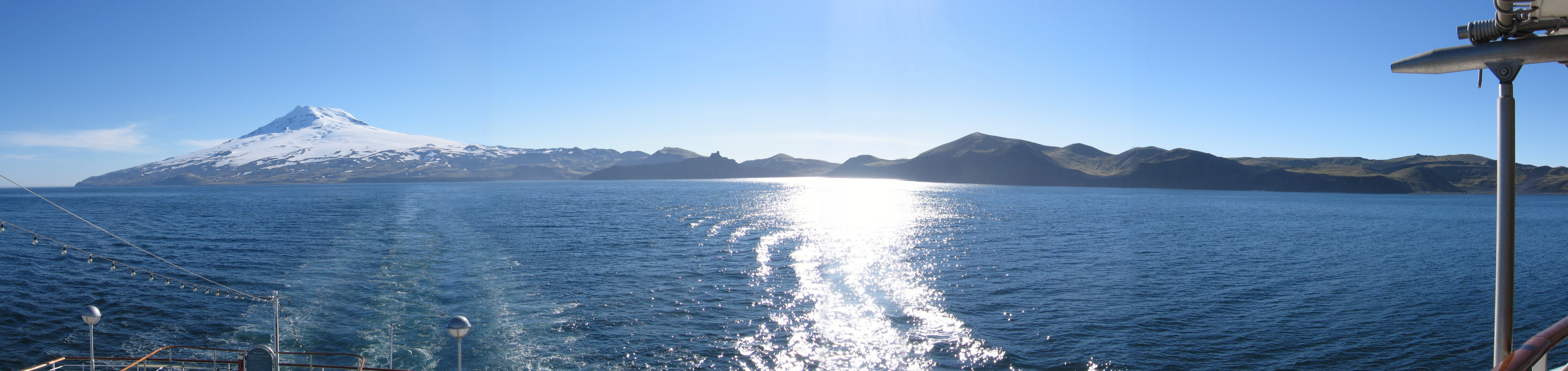 Northwest coast of Jan Mayen island on a clear day, showing Nord-Jan and Beerenberg to the left and Sør-Jan to the right. Taken from the m/s Prinsendam.